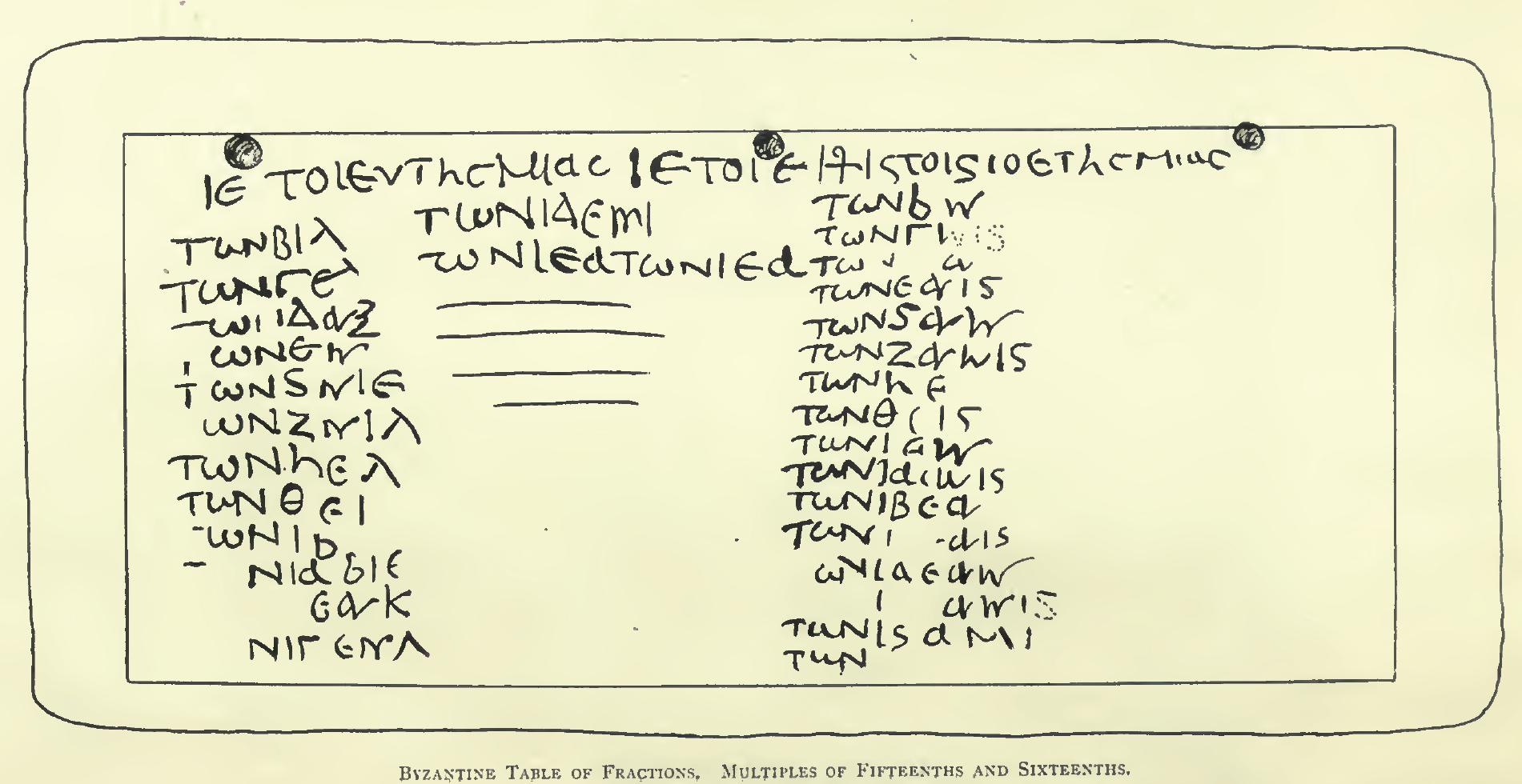 Byzantine_Table_of_Fractions. Found in Egypt, now in University College London